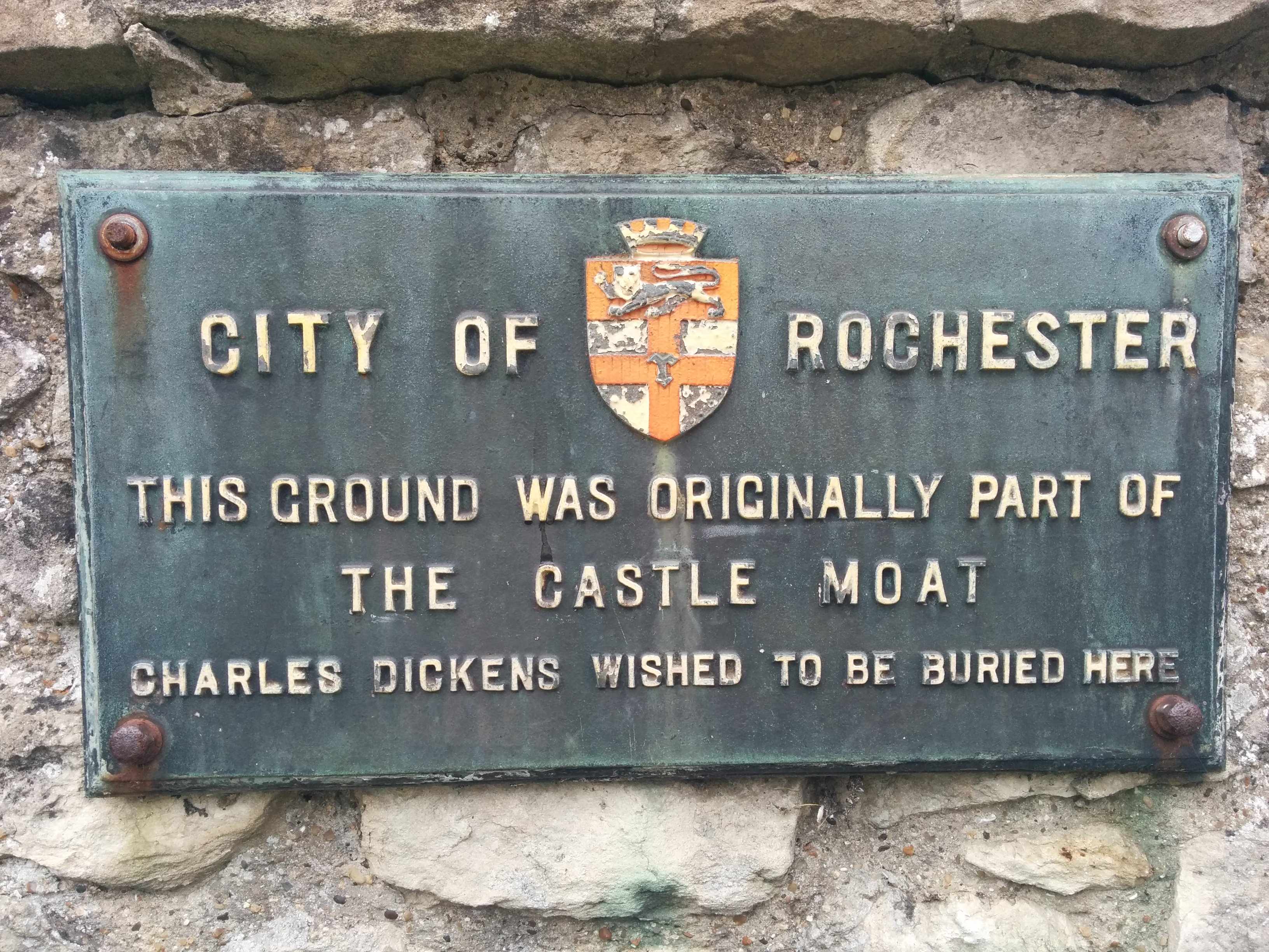 Charles Dickens wished to be burried here, This memorial is kept just opposite to the Rochester Cathedral.